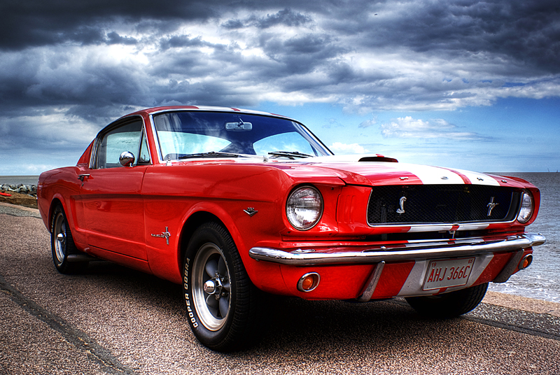 Ford Mustang on Felixstowe beach